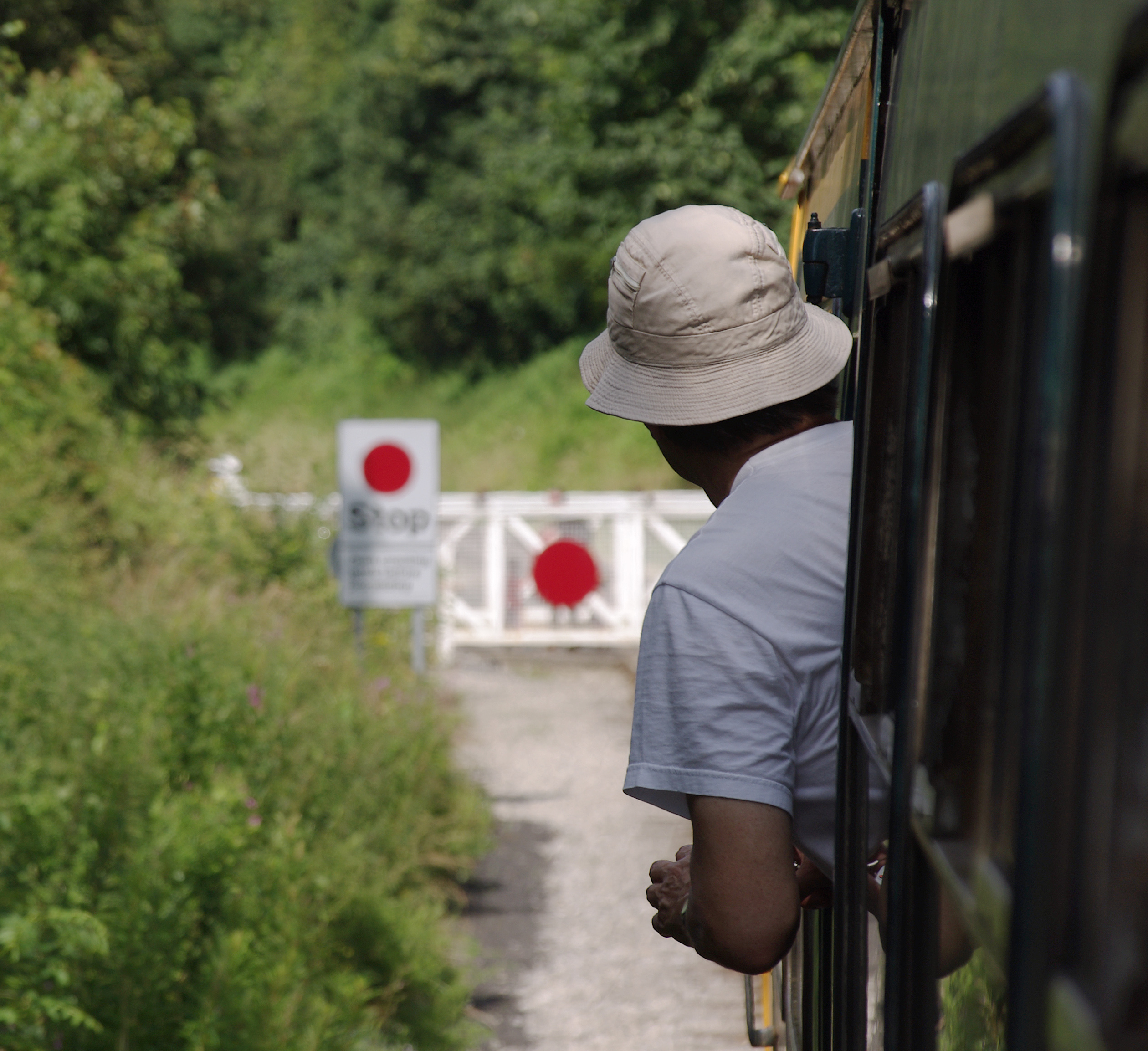 Onboard a BR class 101 DMU, approaching Wirksworth railway station on the Ecclesbourne Valley Railway.